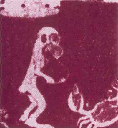 Battle of a Monkey and a Crab, 1917 short film by Seitarō Kitayama